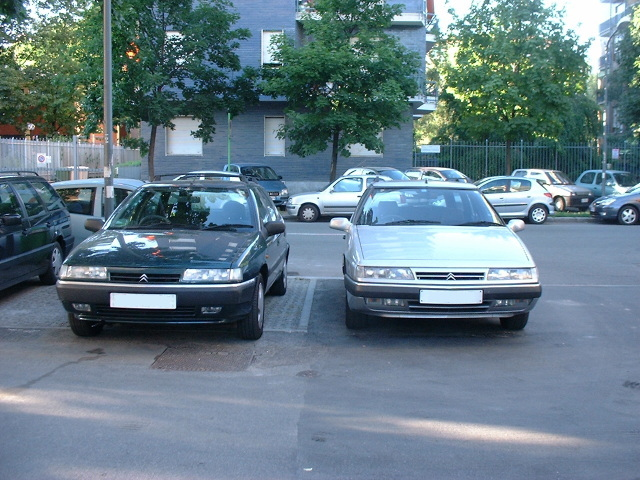 Citroen XM and Xantia both Estate (station wagon)